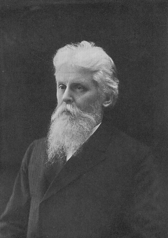 Nikolay Knipovich